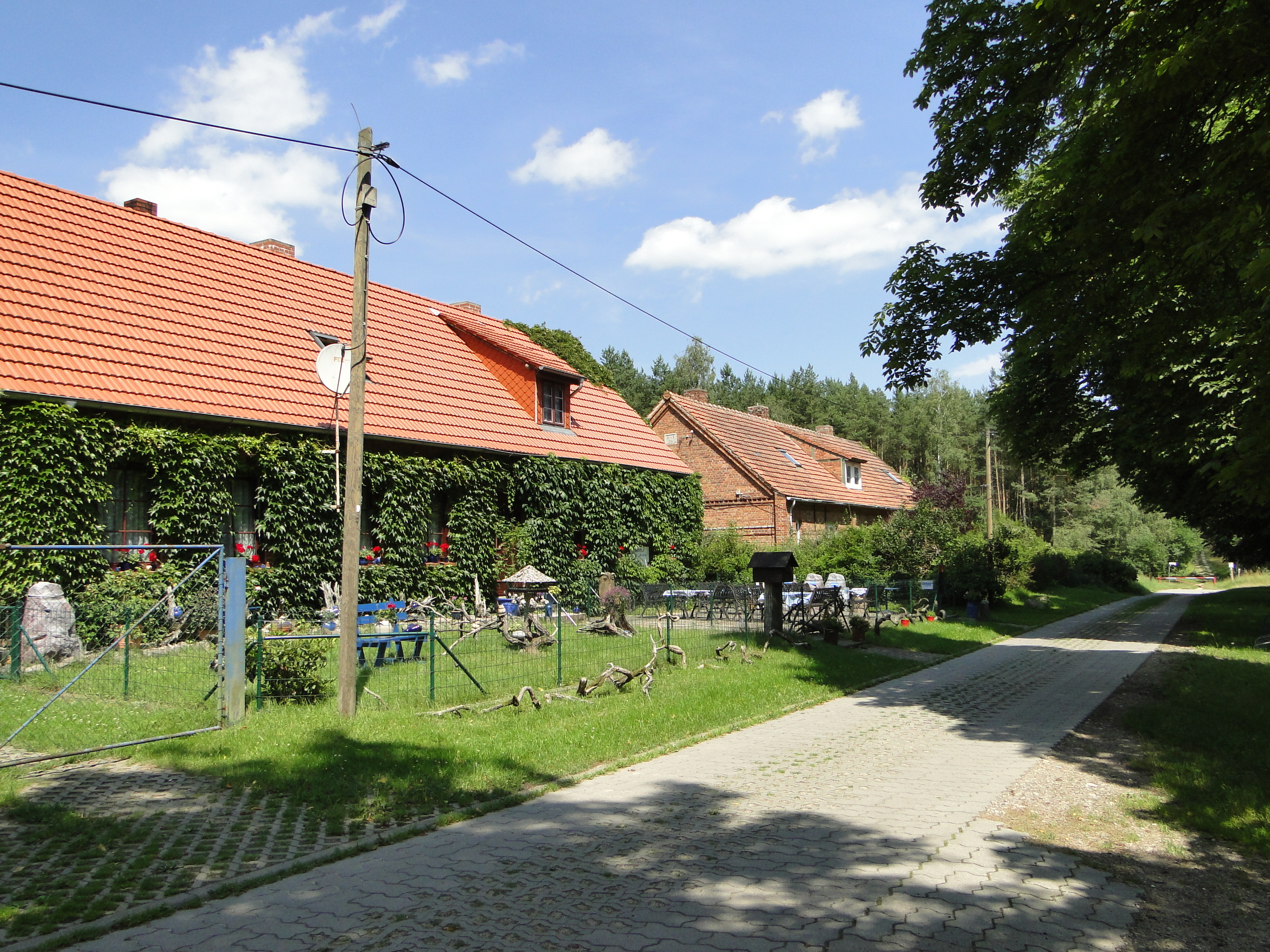 Buildings in Neu Schwinz, district Parchim, Mecklenburg-Vorpommern, Germany